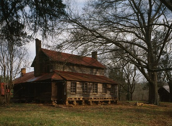 Williams Place, Main House, SC Secondary Road 113, .75 mile North of SC 235, Glenn Springs (Spartanburg County, South Carolina) - cropped